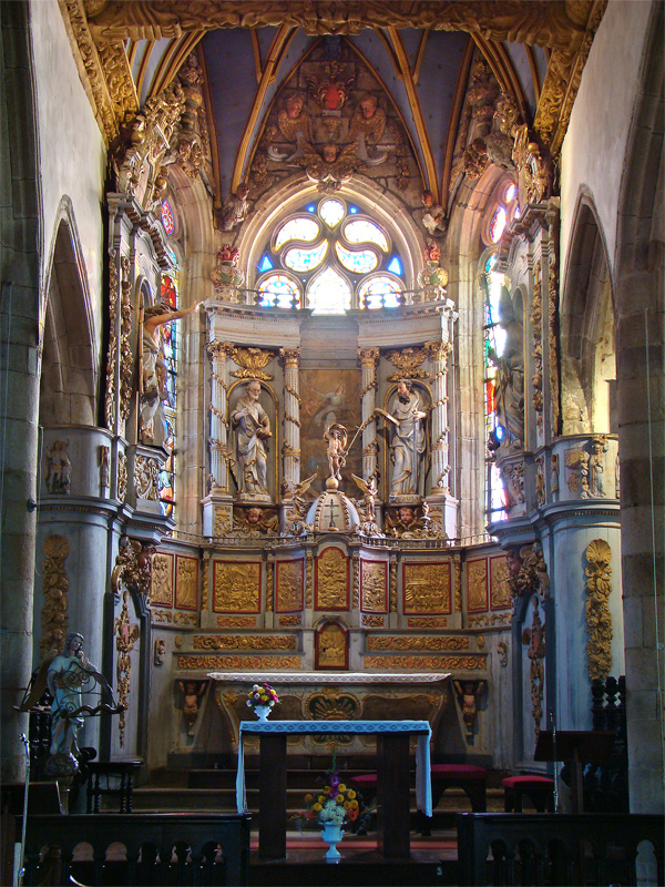 Notre-Dame Church, Bodilis, Finistère, Bretagne, France. Main altar, attributed to Guillaume Lerrel of Landivisiau (1695).